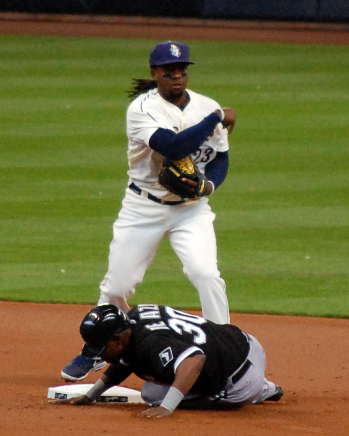 Rickie Weeks playing for the Milwaukee Brewers at Miller Park in Milwaukee, Wisconsin.